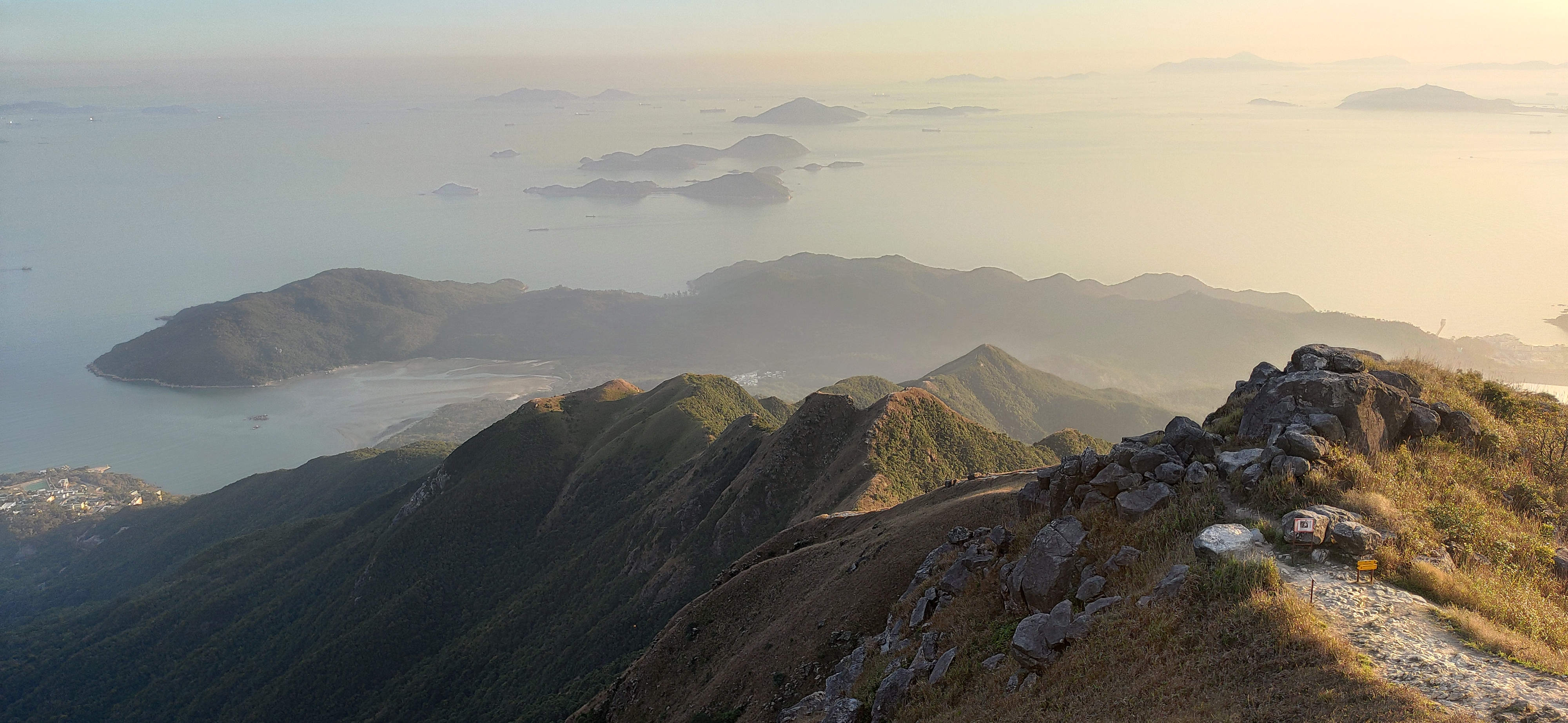 Kau Nga Ling Sunset